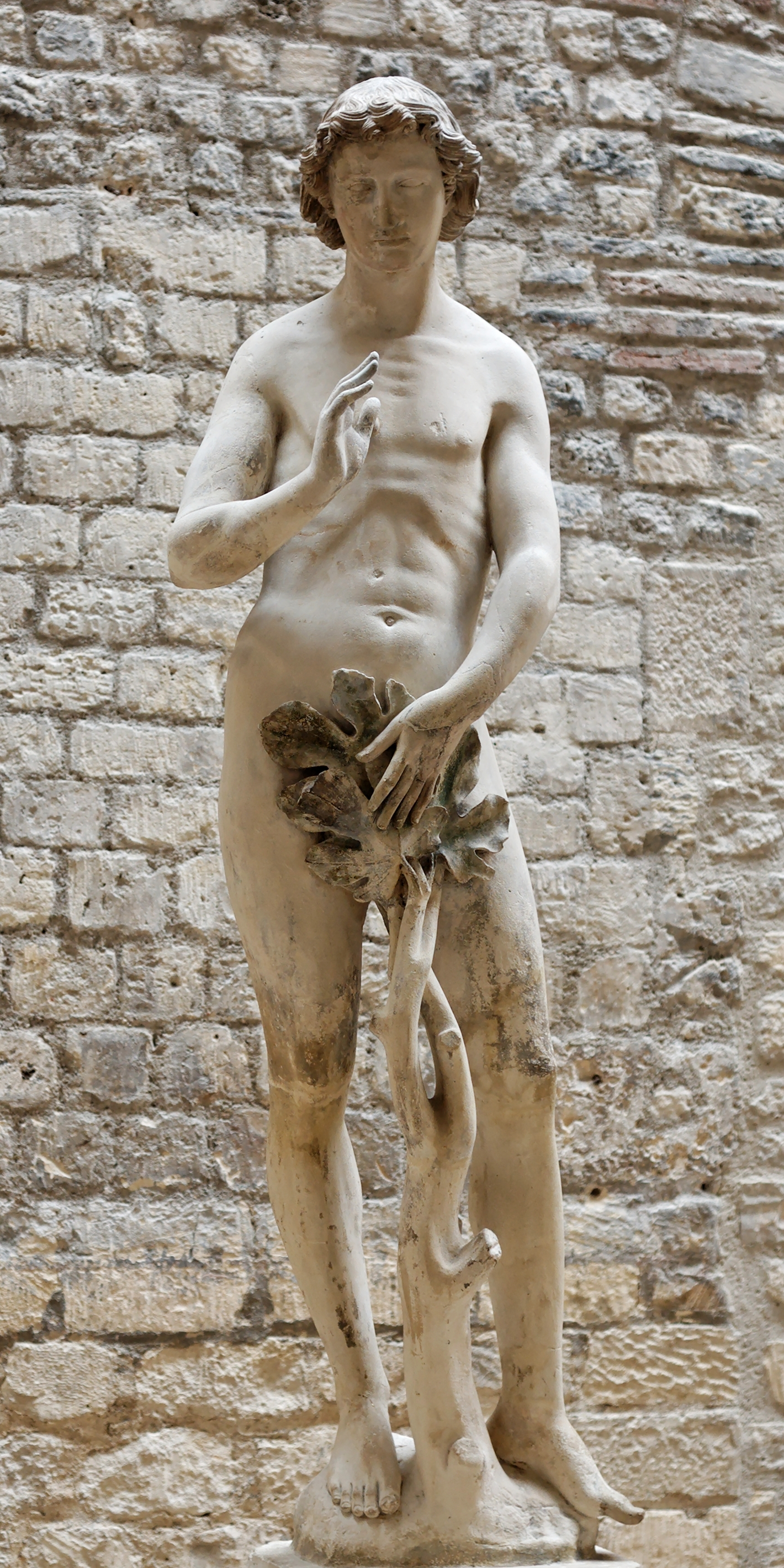 Adam. From the interior decoration of the south arm of the transept of Notre-Dame of Paris. Formed a pair with a statue of Eve; both statues surrounded a Christ of the Last Judgment.